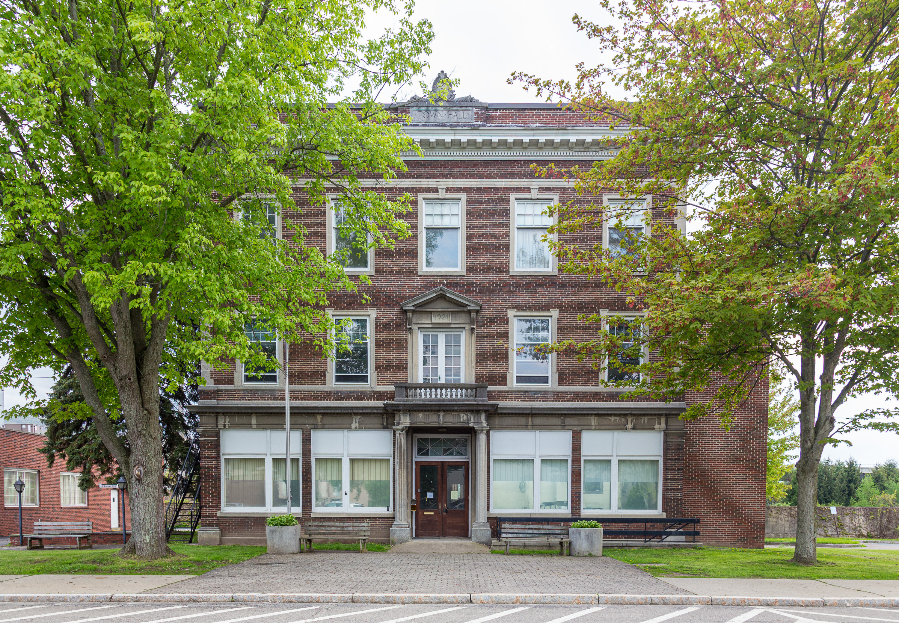 The old Erwin Town Hall. 117 West Water Street, Painted Post, New York. 1921.